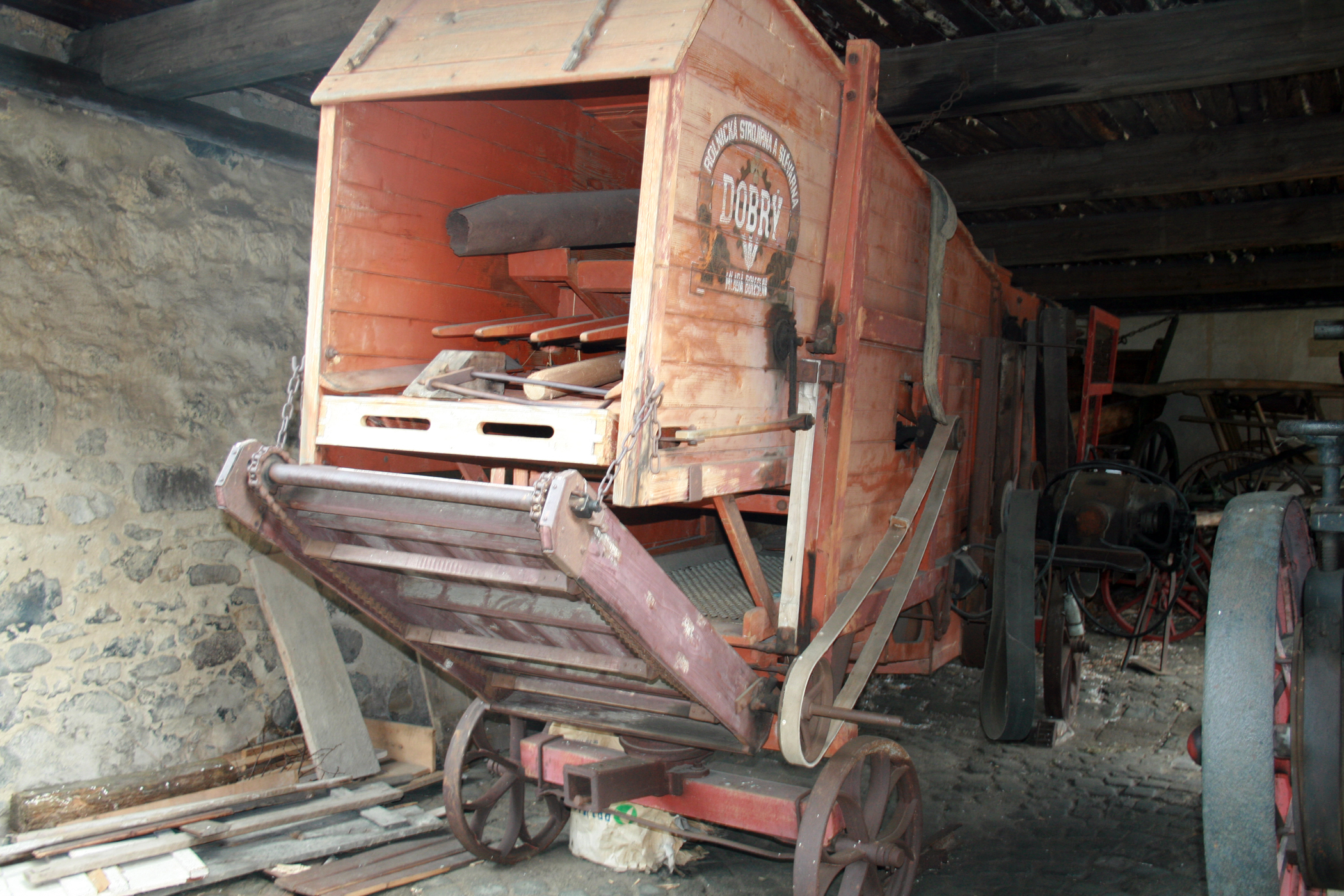 Old threshing machine in open-air museum in Zubrnice in nothern Bohemia